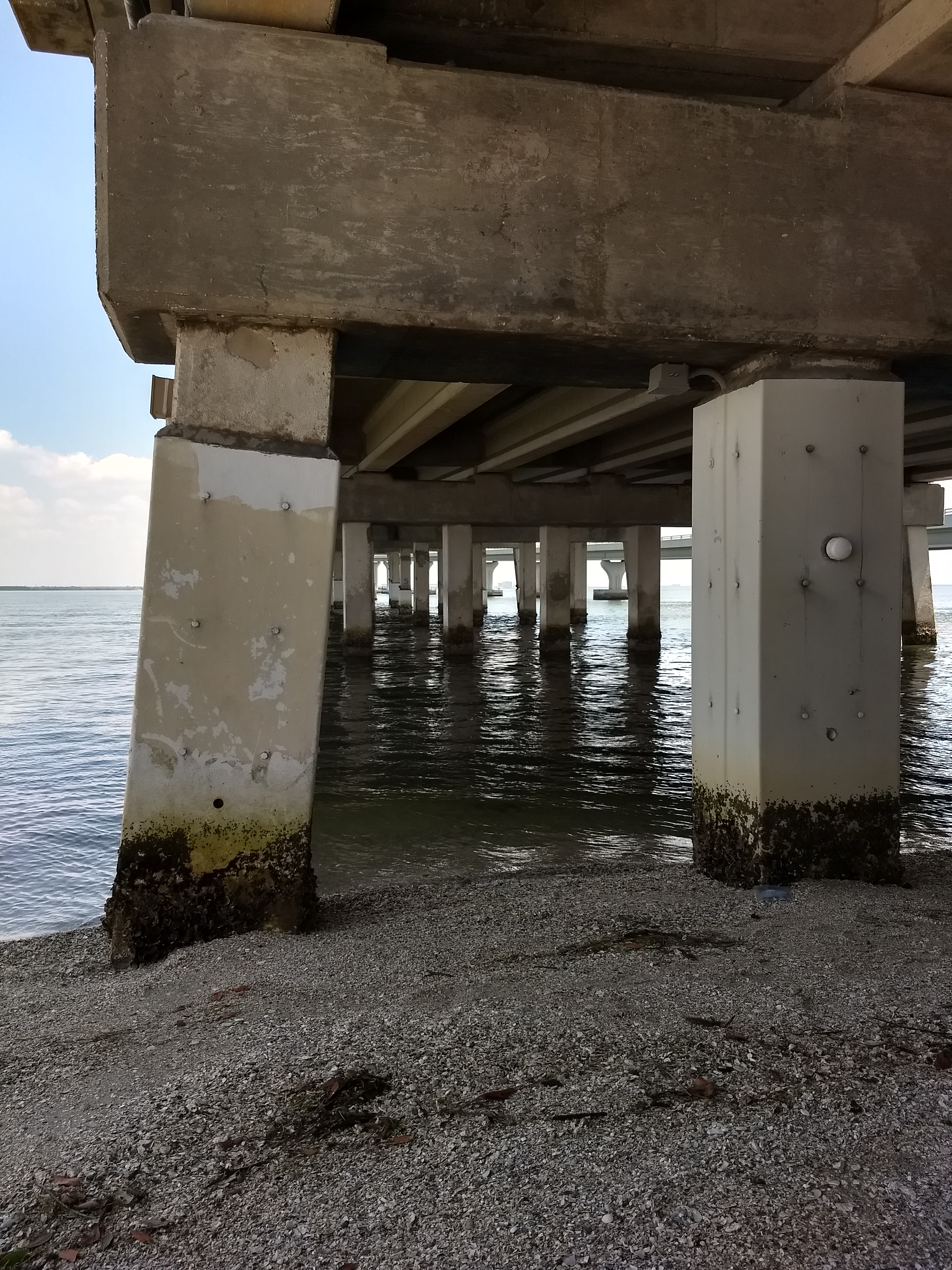 View from the shore of the western end of the main span of the Courtney Campbell Causeway. Metal pile jackets can be seen encasing many of the bridge's pilings.